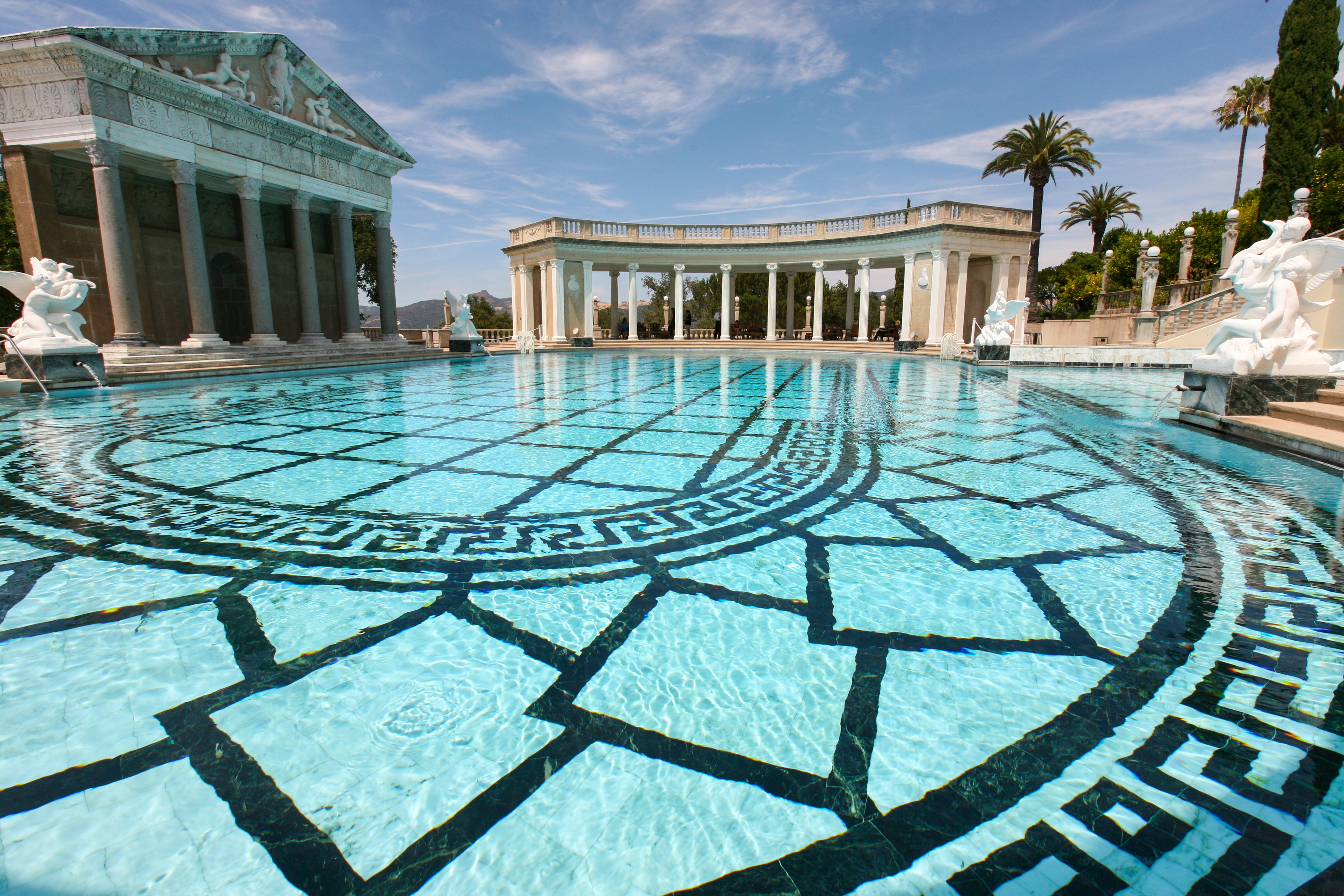 The Neptune Pool at Hearst Castle was rebuilt three times to suit its owner's tastes. Its centerpiece is the façade of an ancient Roman temple that William Randolph Hearst had purchased and imported to California. San Simeon, California, USA